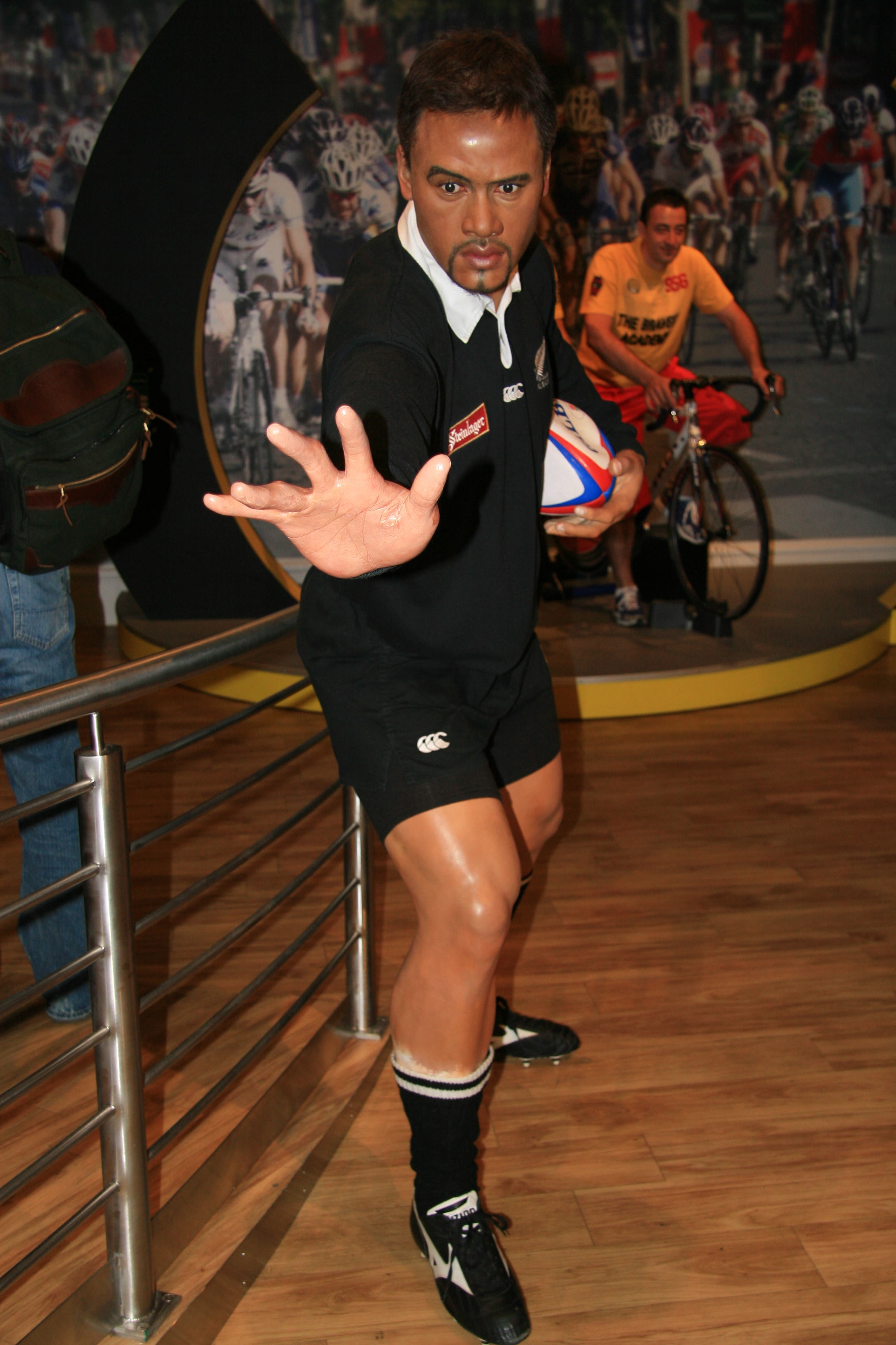 Jonah Lomu is a New Zealand rugby union player. He pushed a player who tries to tackle him. He is in Madame Tussauds museum in London.